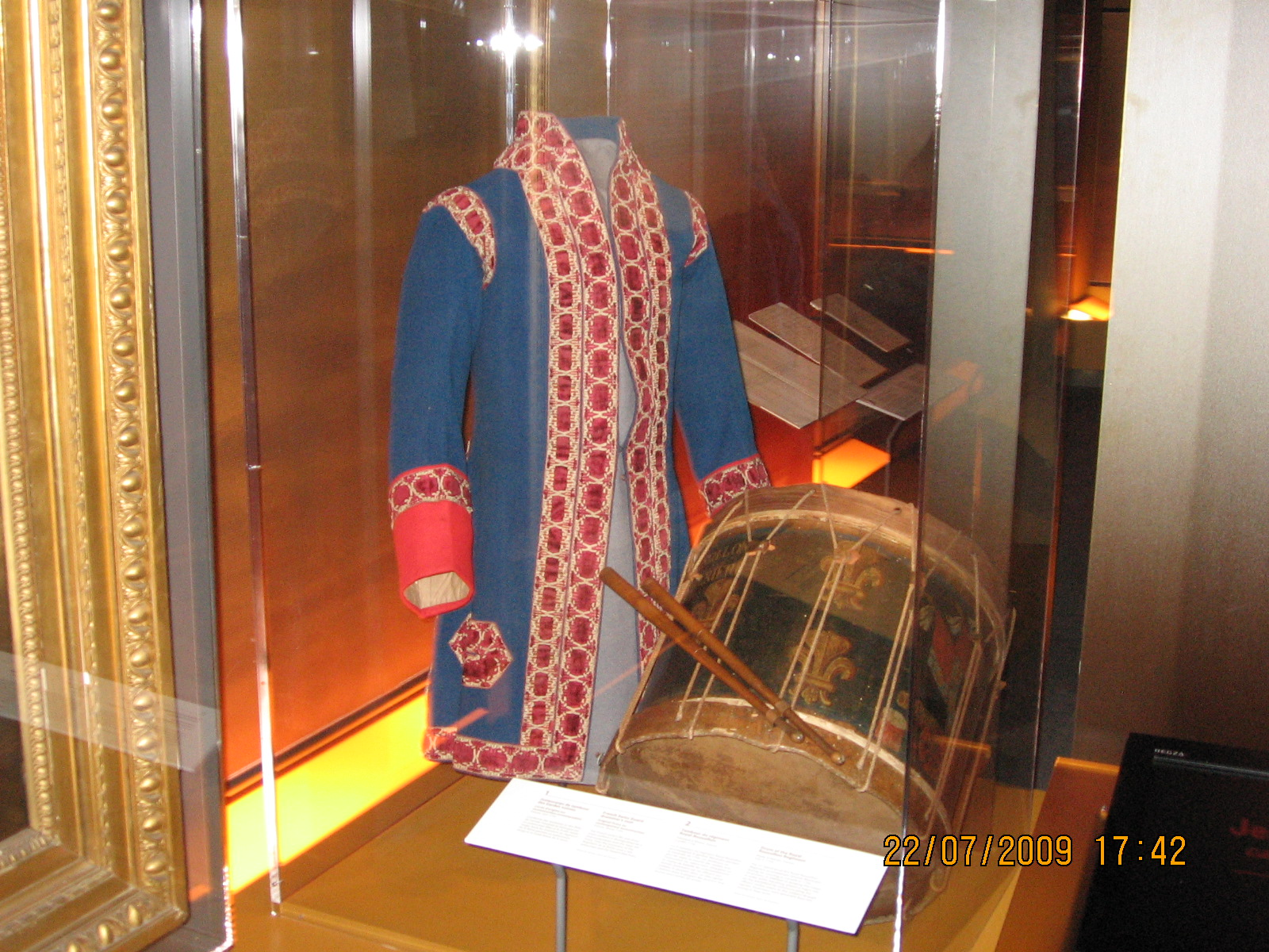 French Military drums